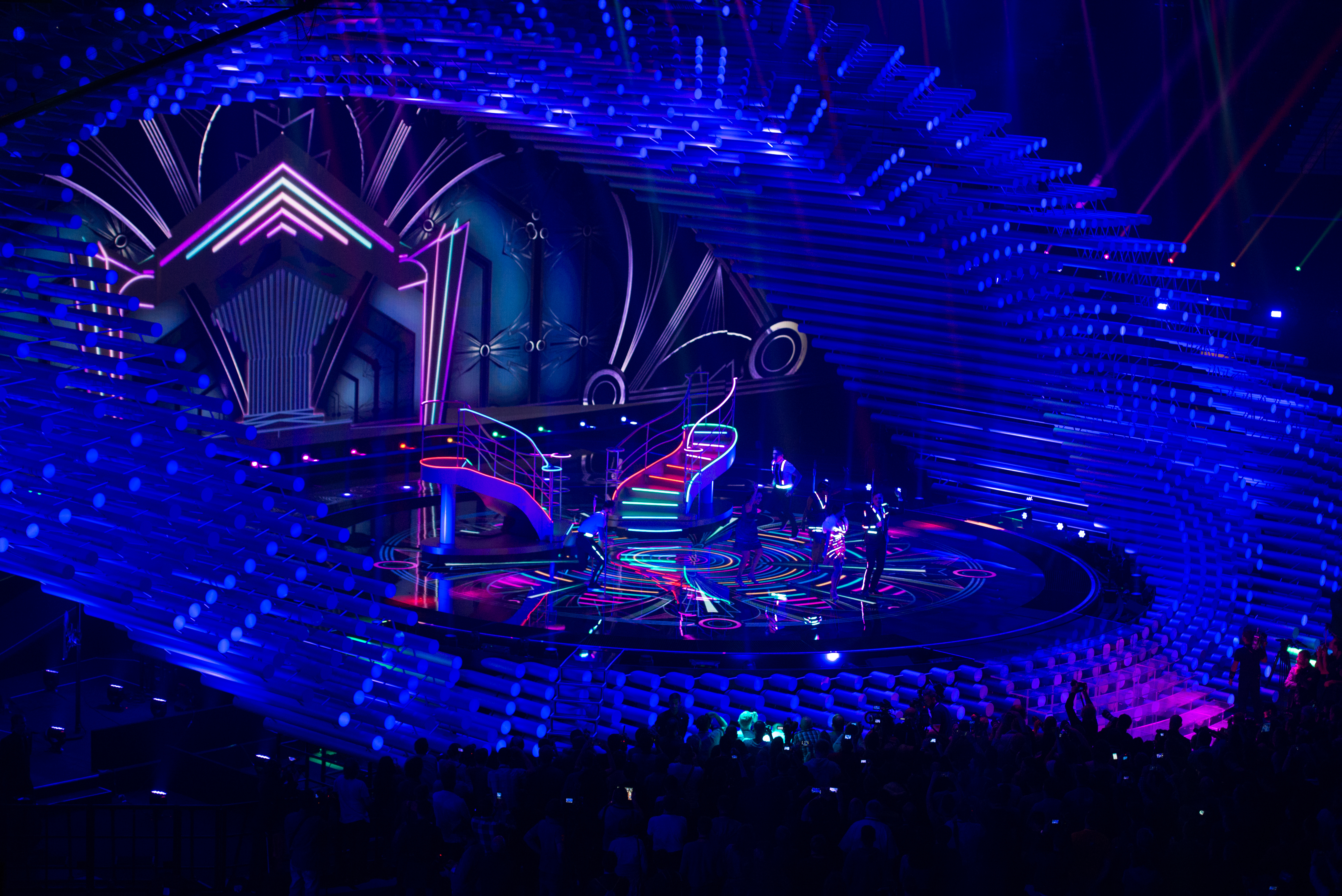 Eurovision Song Contest Vienna 2015: Electric Velvet